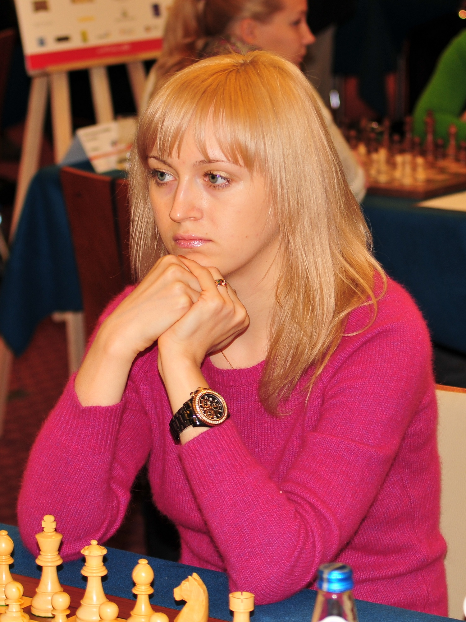 GM Anna Ushenina, European Chess Team Championship Warsaw 2013